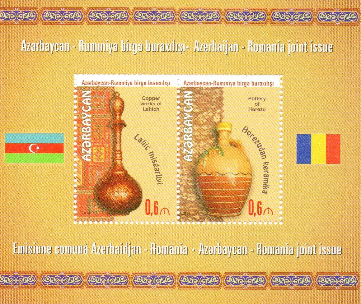 Traditional folk art. Azerbaijan - Romania joint issue. N 1192 - 60 qapik – Copper works of Lahich, Azerbaijan. N 1193 - 60 qapik – Pottery of Horezu, Romania.